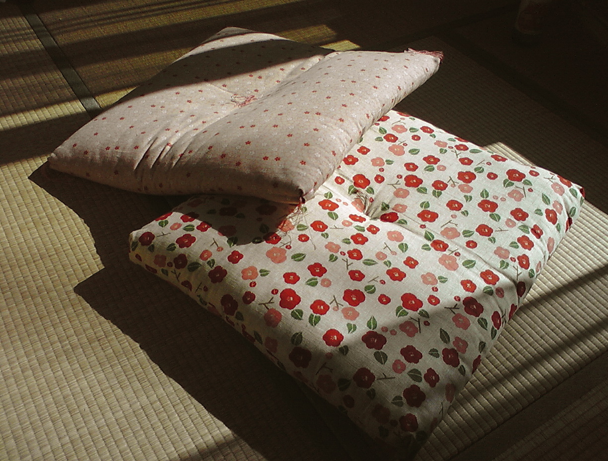 Japanese cushion"zabuton"